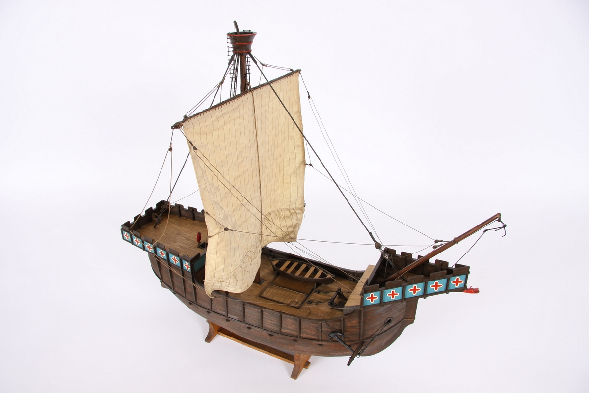 Model of Hulk (medieval ship type) in collection of National Maritime Museum in Gdańsk, Poland